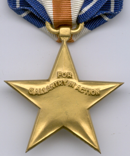 Silver Star (reverse)